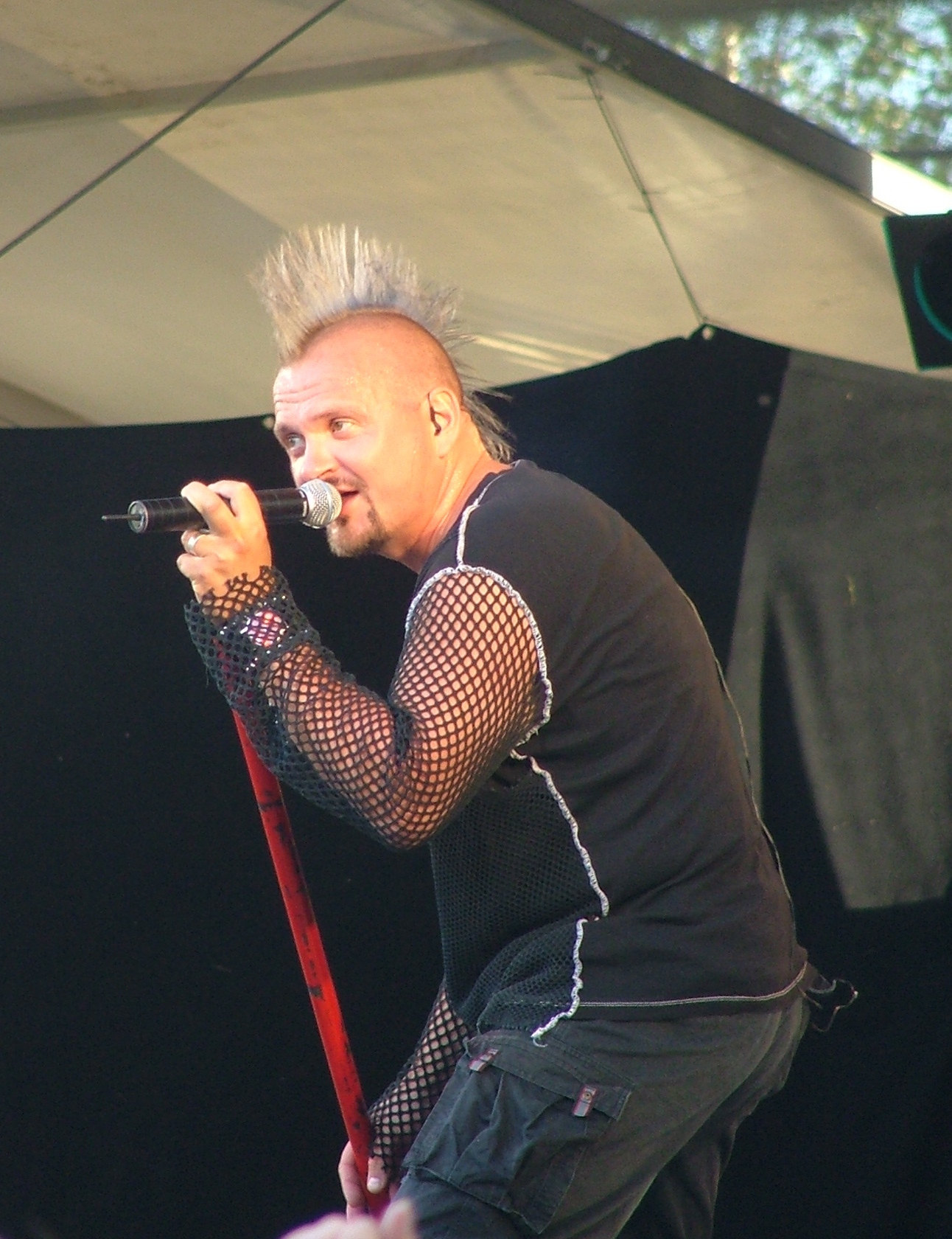 Singer Vesa Jokinen of Finnish punkrock-band Klamydia in Kuopio at Rockcock-musicfestival